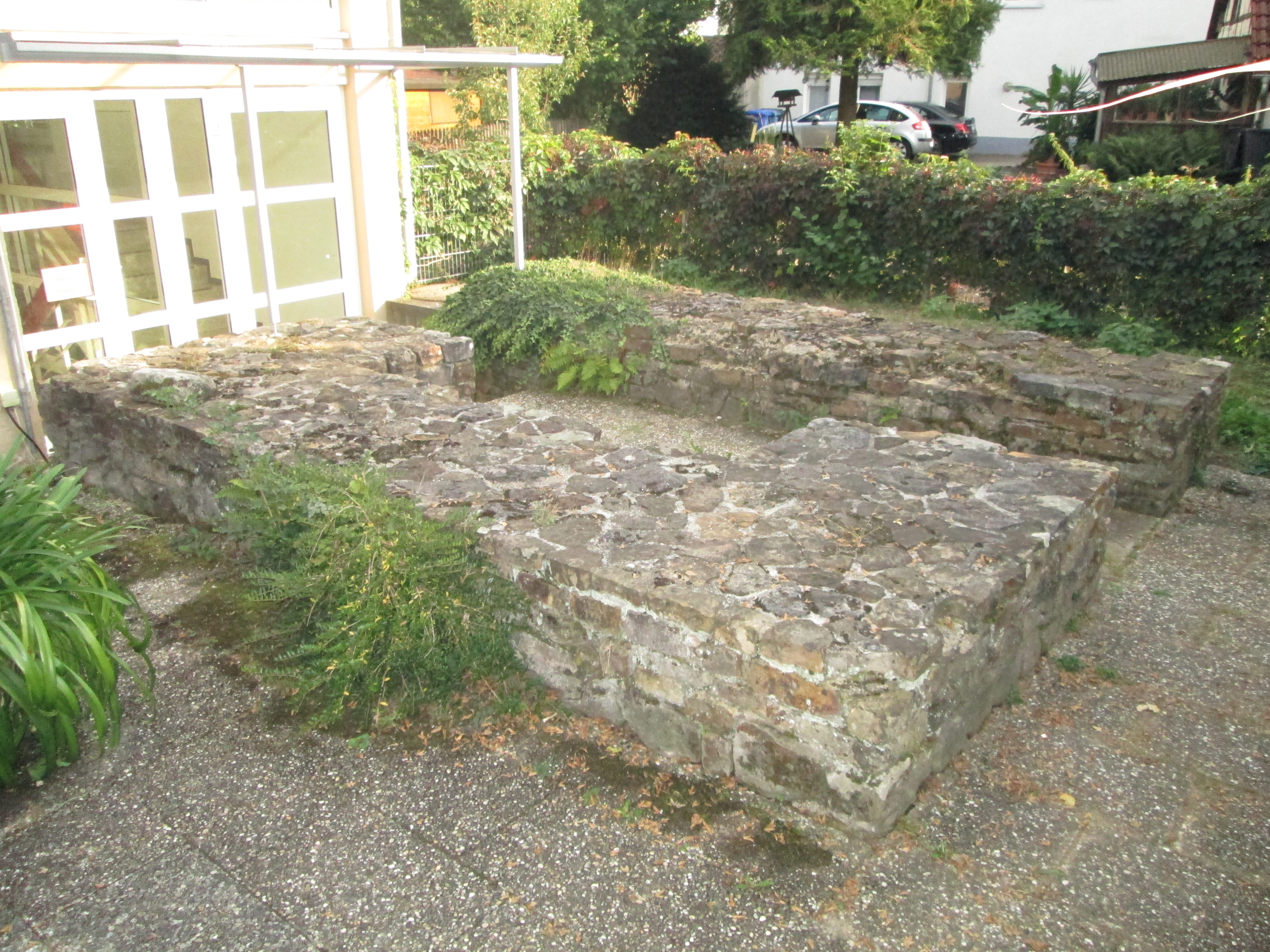 Conserved foundations of the northern tower of Lorch roman fort's western gate